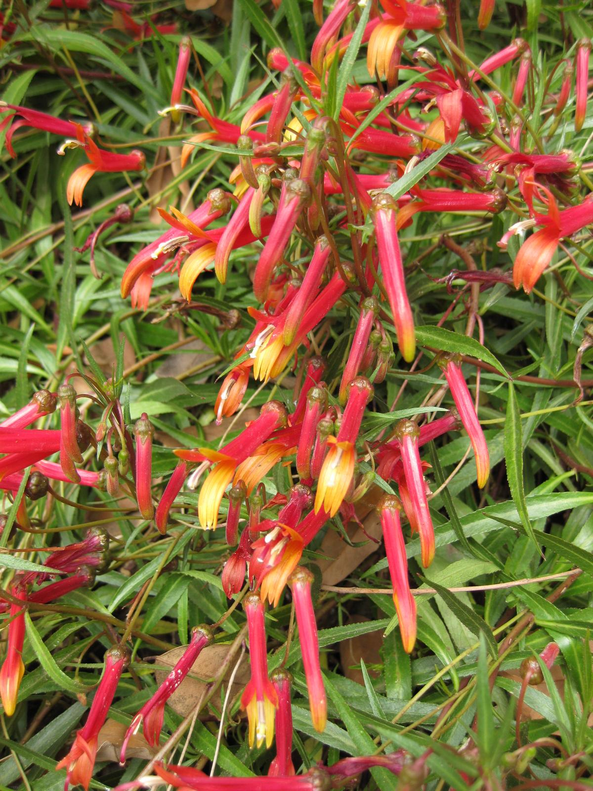 Photographed at Huntington Gardens (Los Angeles) in April